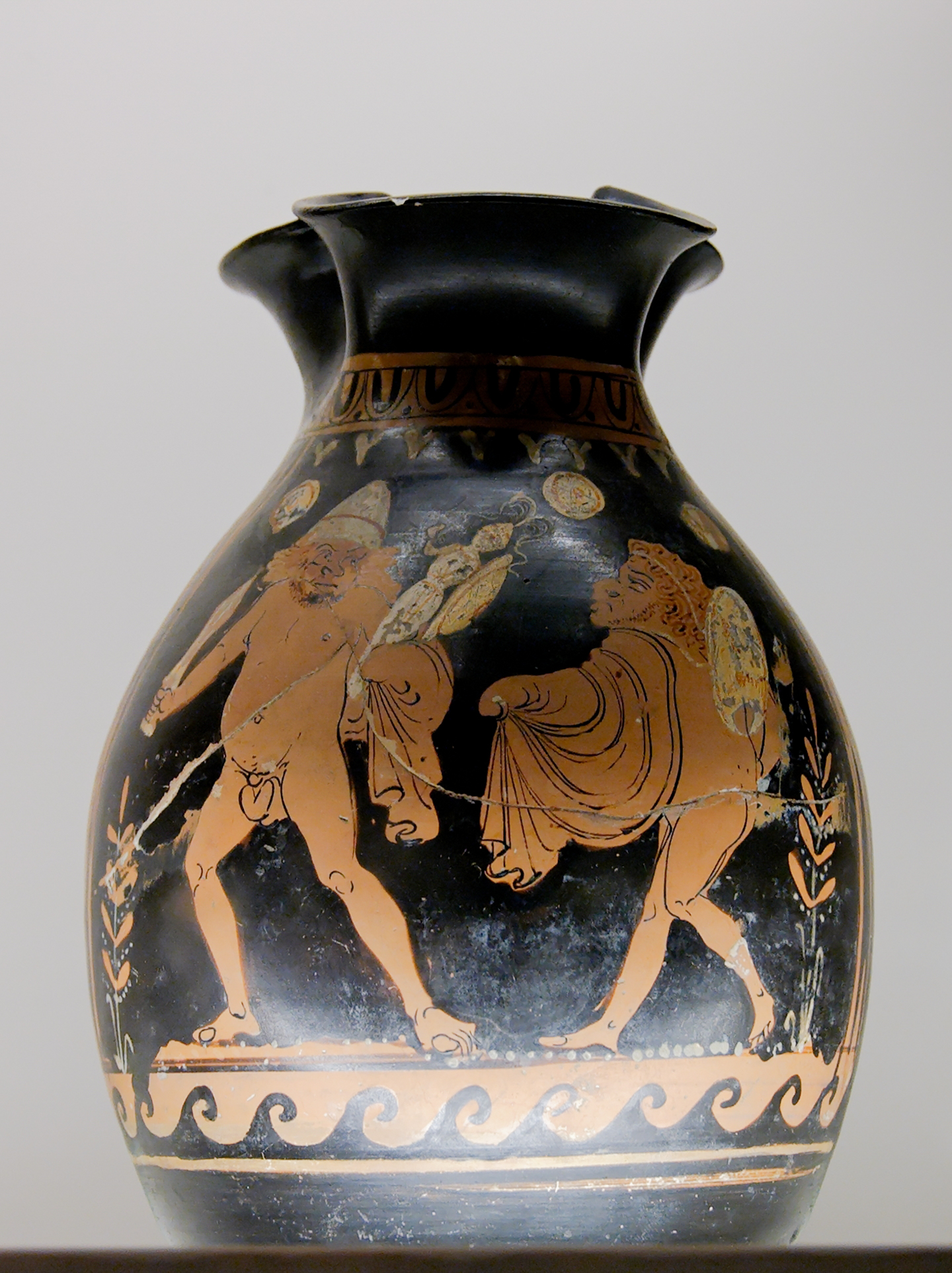 Scene from a satyr play. Apulian red-figured oinochoe, ca. 370–360 BC.